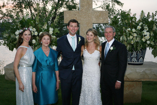 President George W. Bush and Mrs. Laura Bush and Barbara Bush stand with Jenna Bush Hager and Henry Hager following the young couple's wedding ceremony at Prairie Chapel Ranch Saturday, May 10, 2008, near Crawford, Texas. White House photo by Shealah Craighead